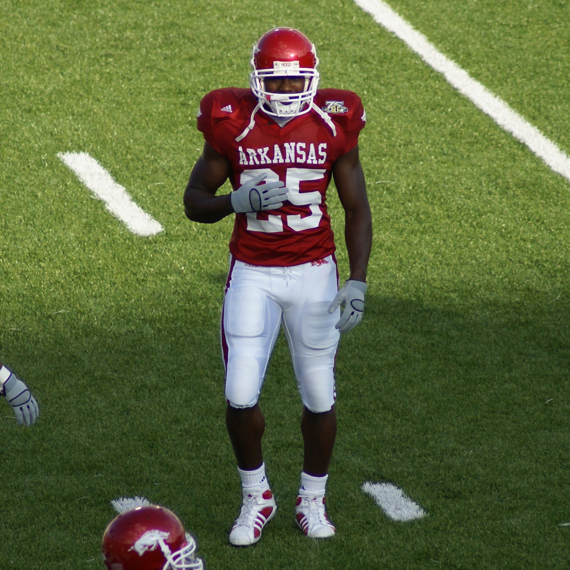 Felix Jones during his college years at the University of Arkansas.